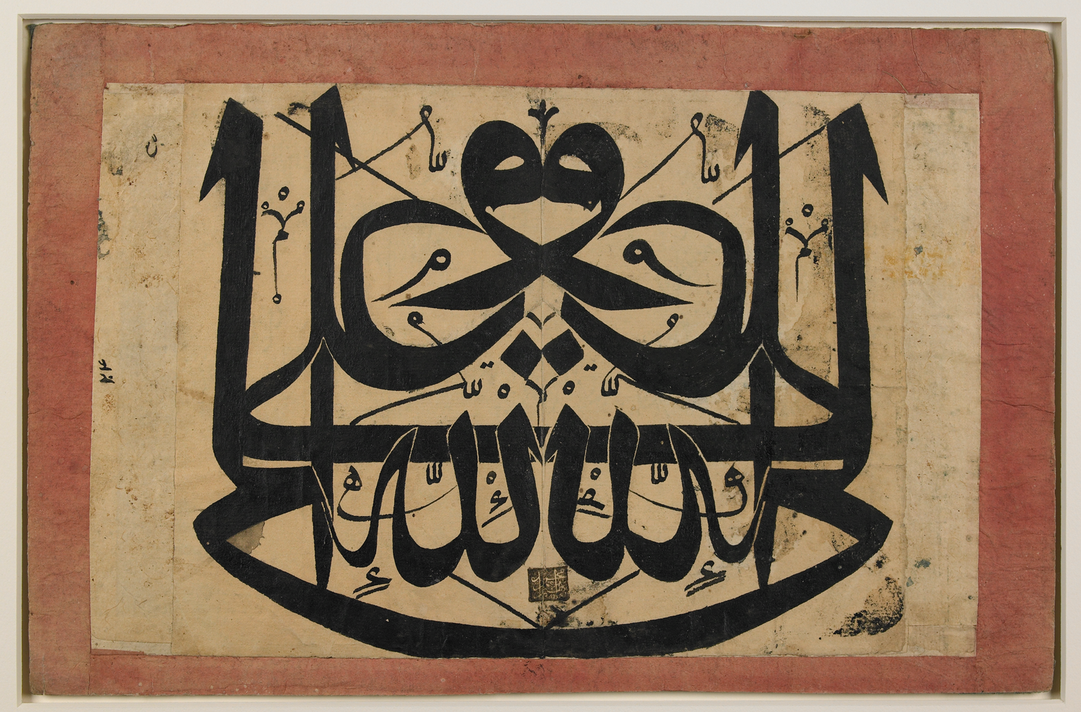 This 18th-century Ottoman levha (calligraphic panel) depicts the Shi'a phrase “'Ali is the vicegerent of God” in obverse and reverse, creating an exact mirror image. The calligrapher used the central vertical fold in the thick cream-colored paper to trace the exact calligraphic duplication prior to mounting it on cardboard and pasting rectangular pink frames along its borders. Mirror writing flourished during the early modern period, but its origins may stretch as far back as pre-Islamic mirror-image rock inscriptions in the Hijaz, the western strip of the Arabian Peninsula. Engraving in reverse for the manufacture of coins and seals also was mastered at an early date. Mirror writing and mirror-image making flourished in the Ottoman Empire during the 18th and 19th centuries, in particular in mystical quarters associated with the Bektashi order. The Bektashis created calligraphic panels and paintings reflective of their tenets, which included belief in the divinity of 'Ali, the fourth caliph of Islam and son-in-law of the Prophet Muhammad. As suggested by this panel, God and 'Ali are not dissociable. The panel probably was hung on a wall in a Bektashi dervish’s living quarters, mosque, or dervish lodge. This specimen includes the artist’s holograph seal, a square impression overlapping the central vertical crease, bearing the name of Mahmud Ibrahim, whose work appears in another levha bearing the dates A.H. 1134 (A.D. 1721–2) and 1141 (1728), suggesting that this panel, by the same artist, probably dates from around 1720–30. Arabic calligraphy; Illuminations; Islamic calligraphy; Islamic manuscripts; Mirror images